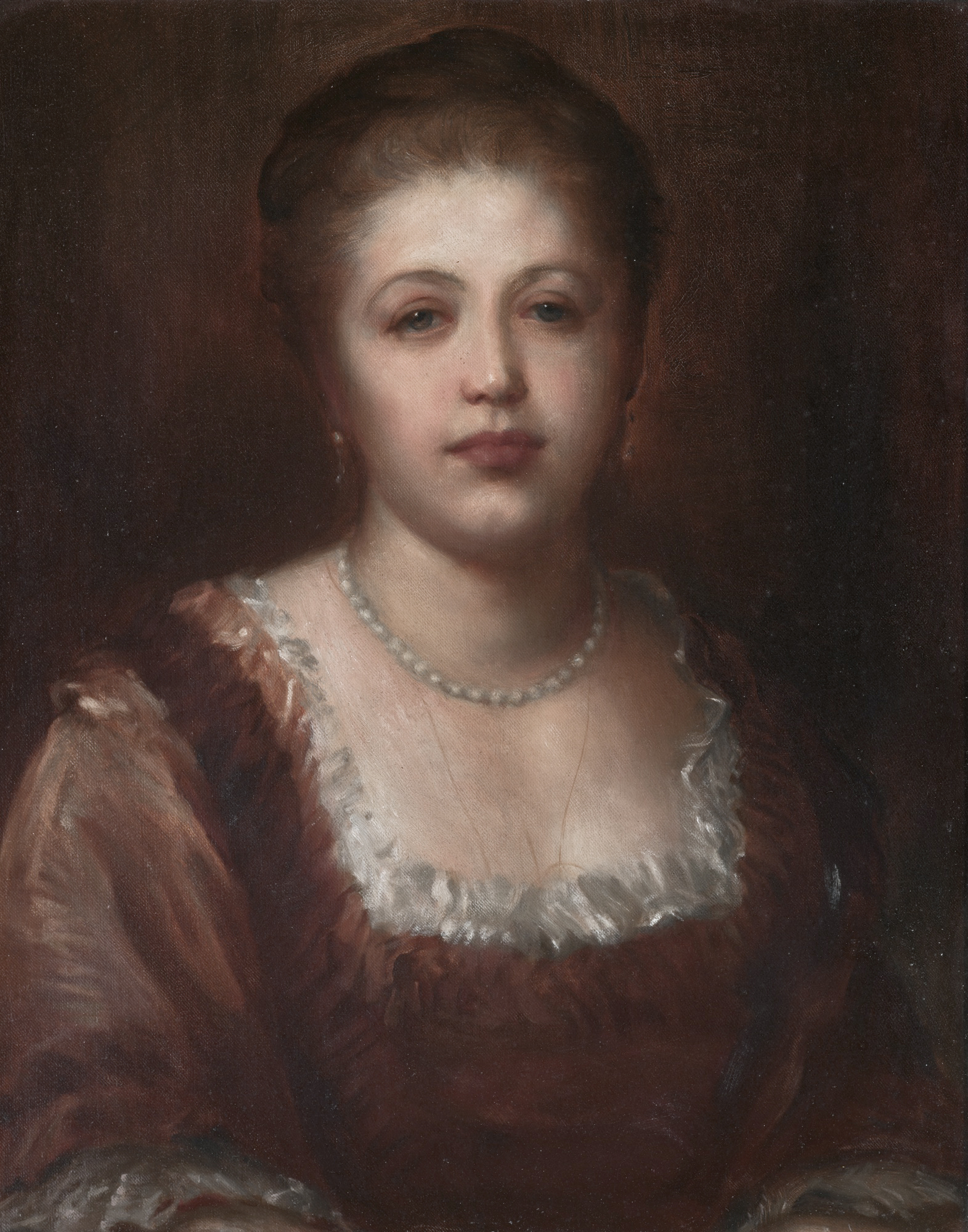 Miss Hannah Rothschild (1851–1890) oil on canvas 51.5 × 41 cm after 1874 replica of the painting in Dalmeny House in Scotland